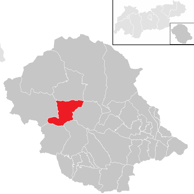 District Lienz